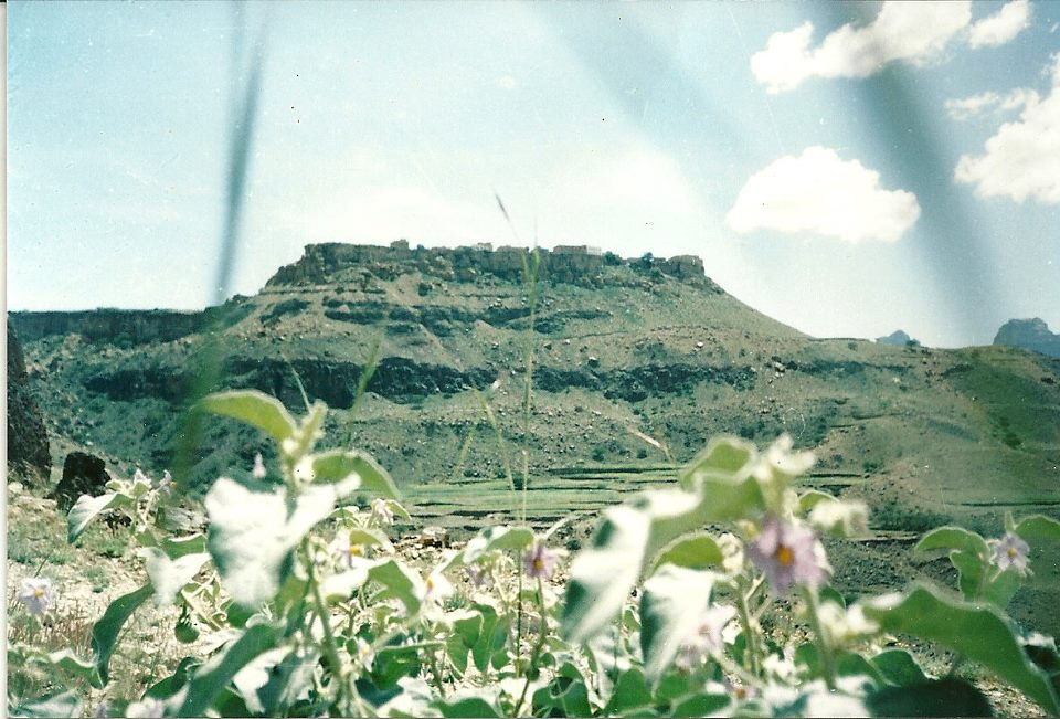 Tariadah Alrriashia